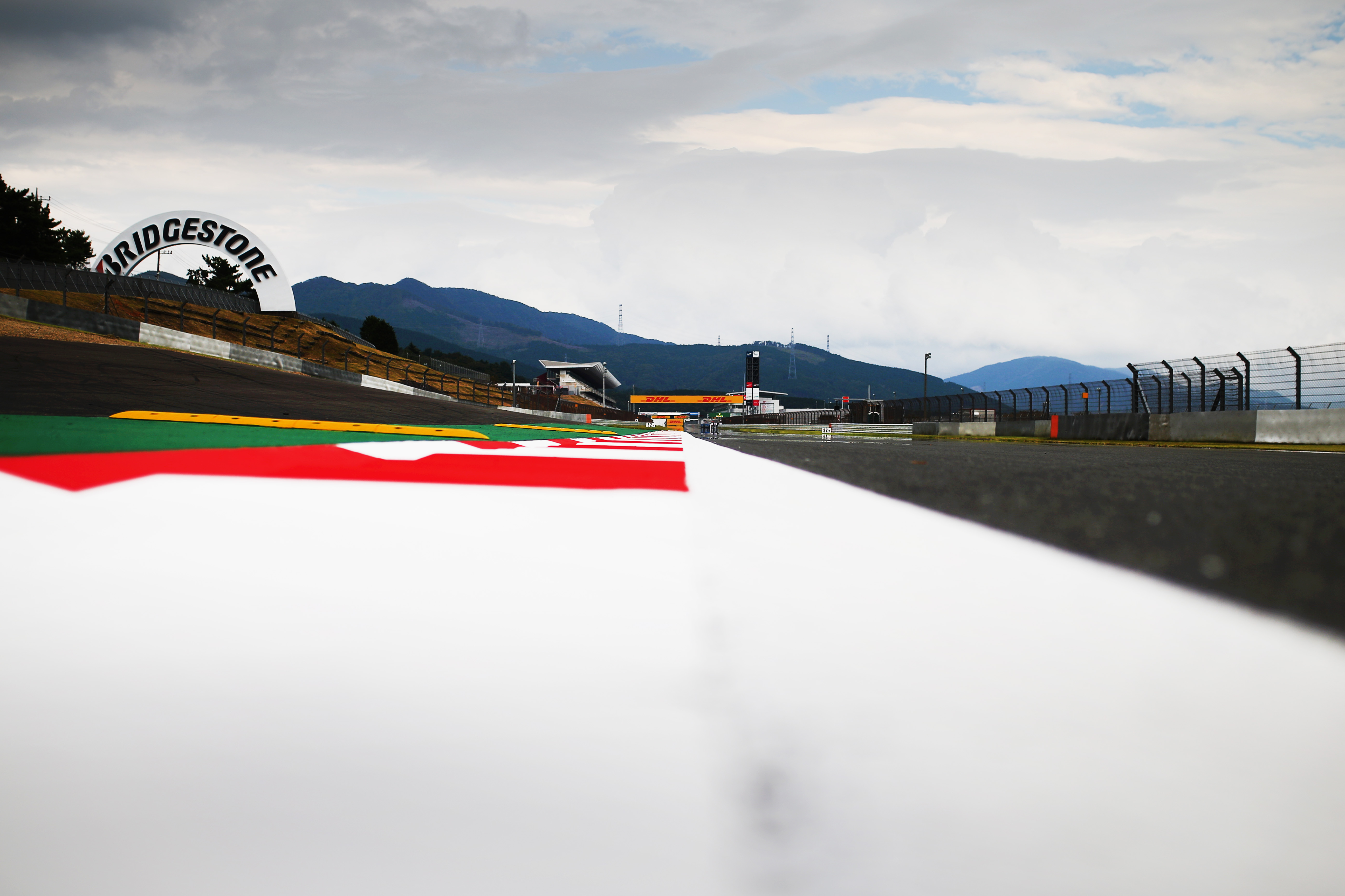 Fuji Speedway Race Track, 2019 6 Hours of Fuji.